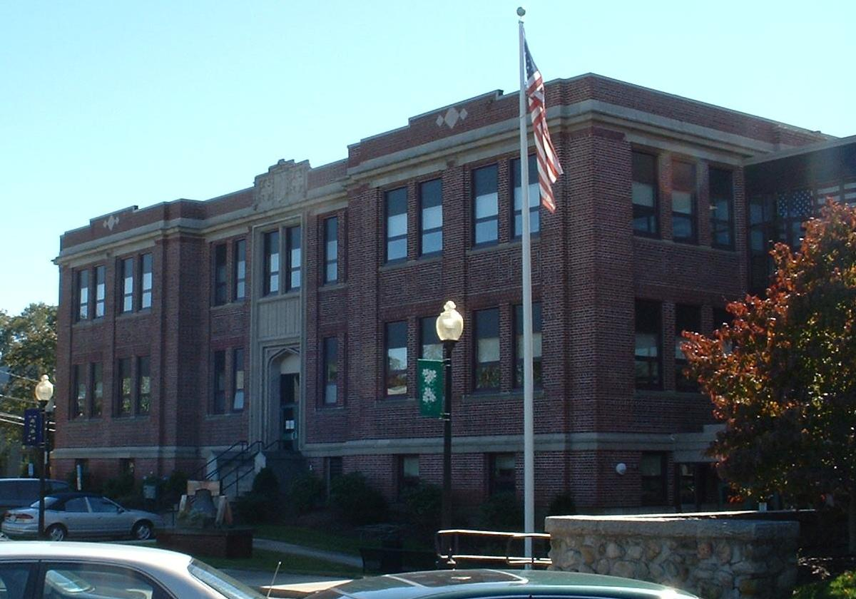 Mansfield Town Hall, which formerly served as the town's high school.